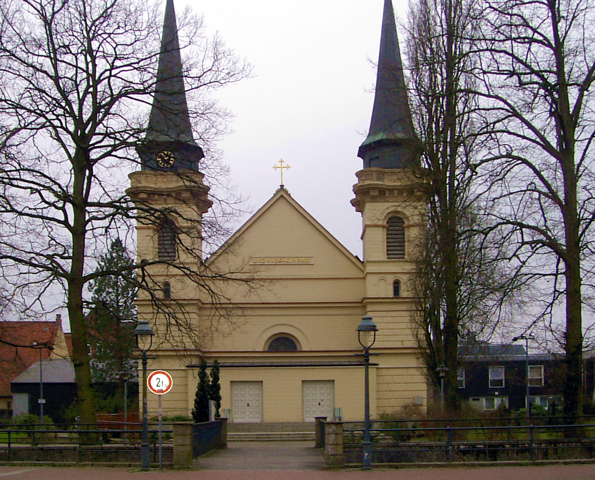 Church St.Ludwig Celle, Lower Saxony, Germany